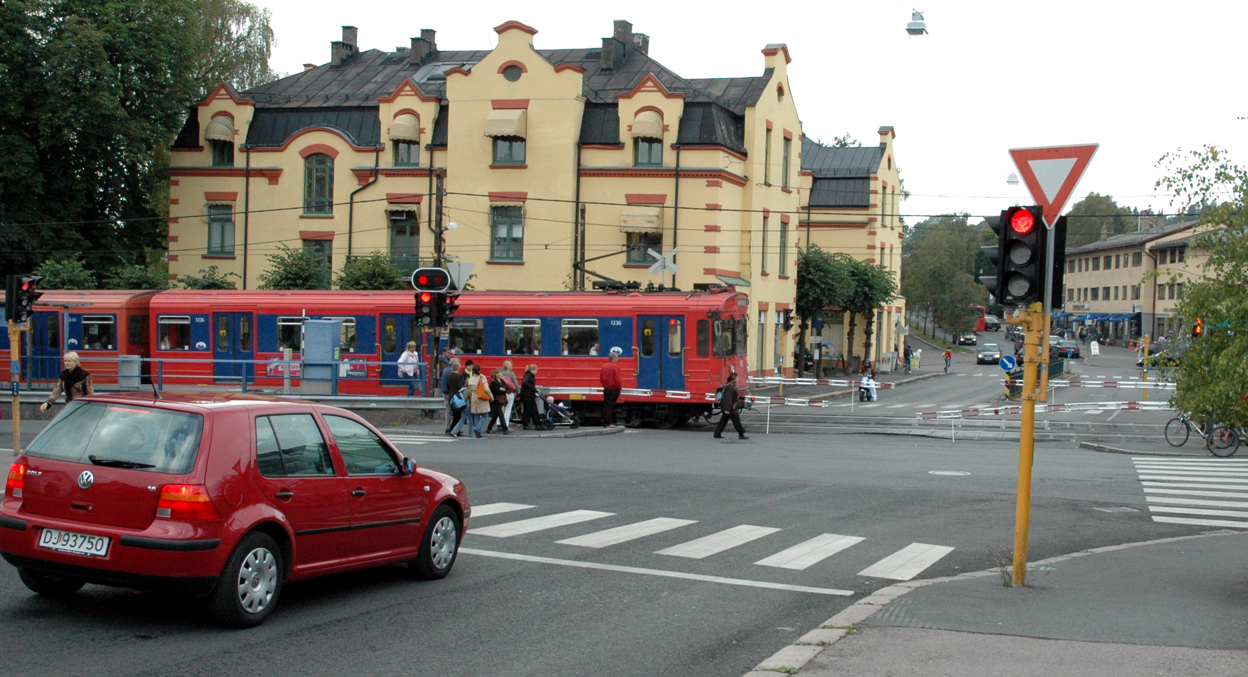 T1300-wagon to Frognerseteren crossing a street at Vinderen station, Oslo, Norway.